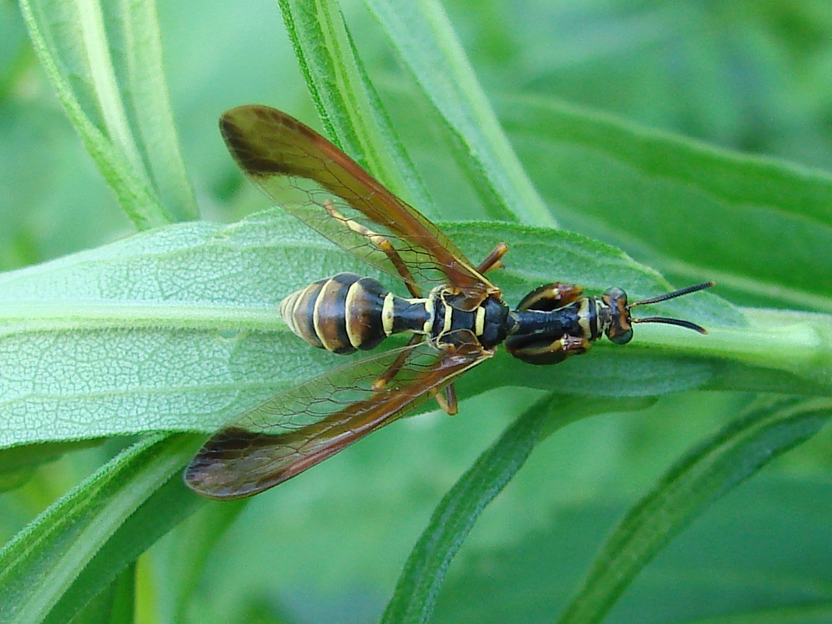 Climaciella brunnea - Wasp Mantidfly, Cross Plains, WI